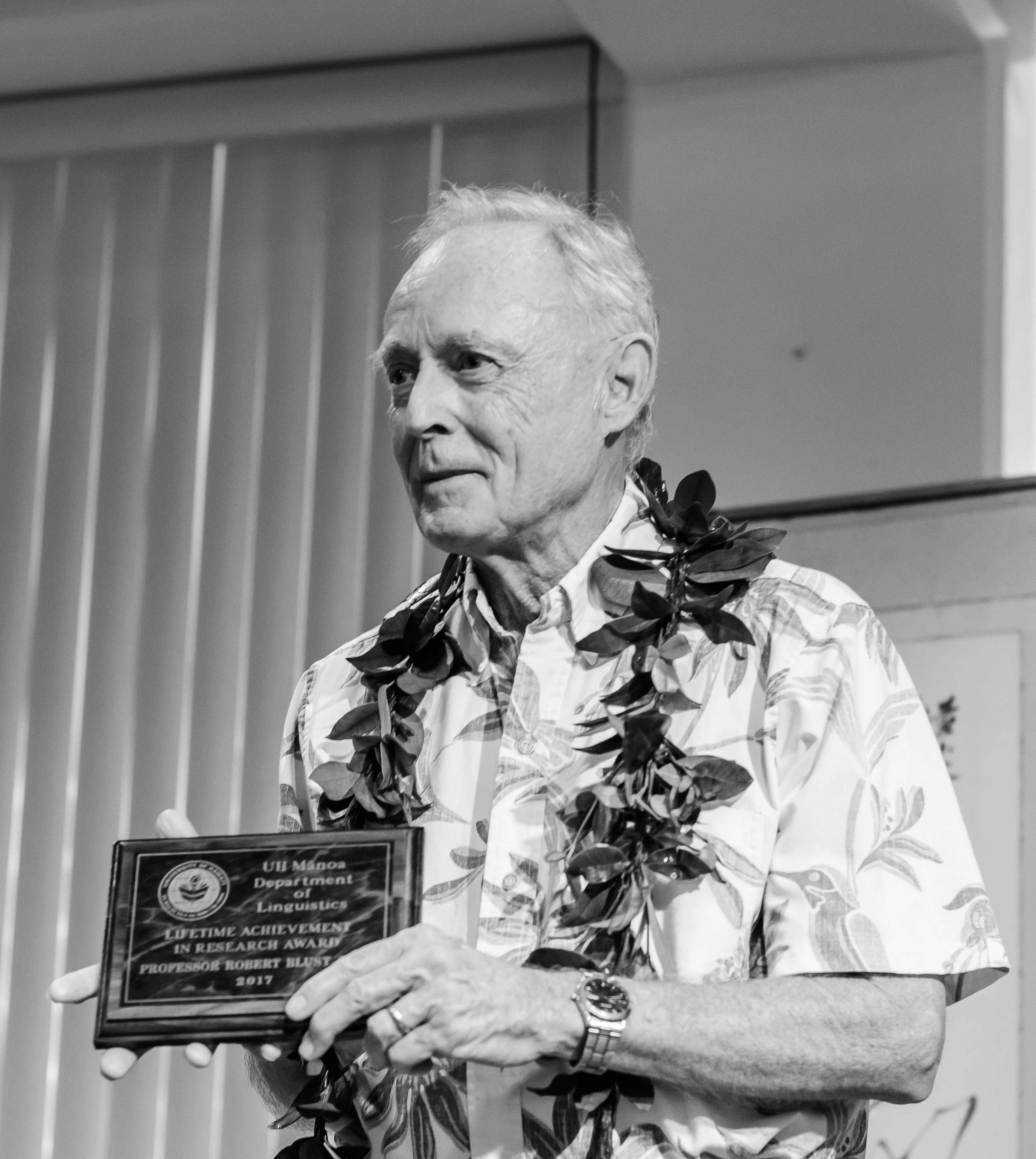 Robert Blust receiving the University of Hawaiʻi at Mānoa Linguistics Lifetime Achievement in Research Award on 12 May 2017 in Honolulu, HI.